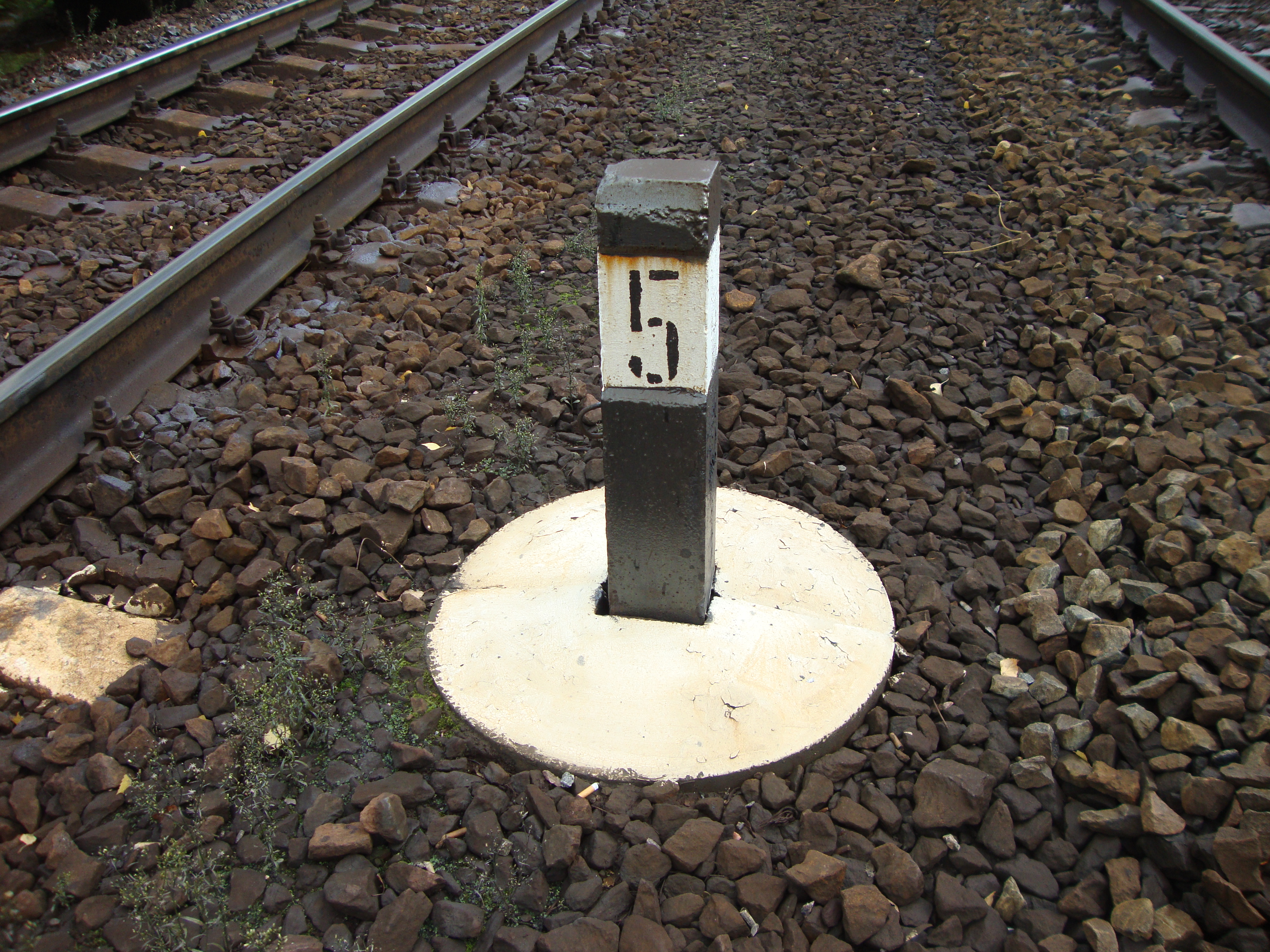 The picket on the "Universitet" railway station.